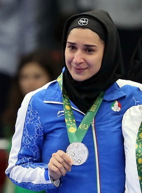 Karate at the 2017 Islamic Solidarity Games, women kumite −61 kg